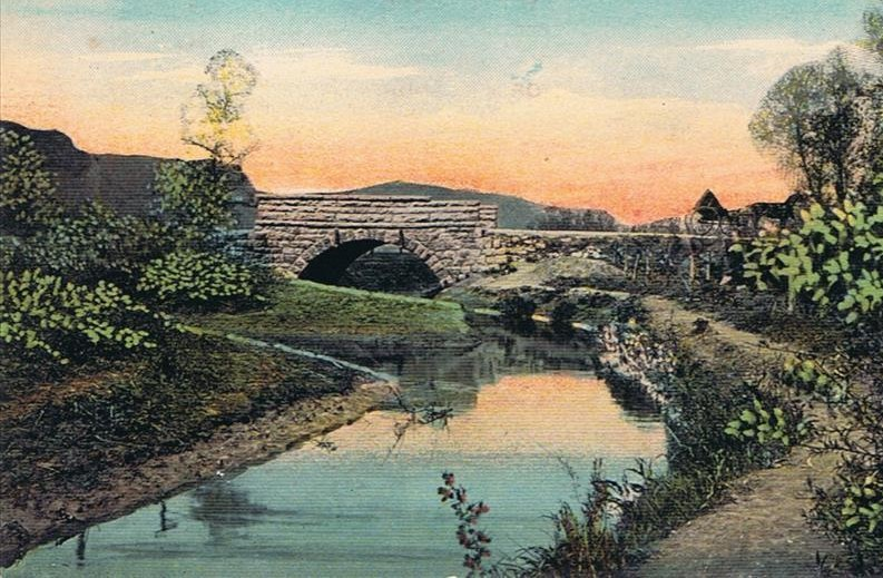 Postcard published for S. H. Knox & Company, postmarked 1912, showing a stone arch bridge at the outlet of Lake Winona in Winona, Minnesota, United States